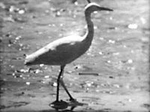 still photo of "One Day at the Tidelands"